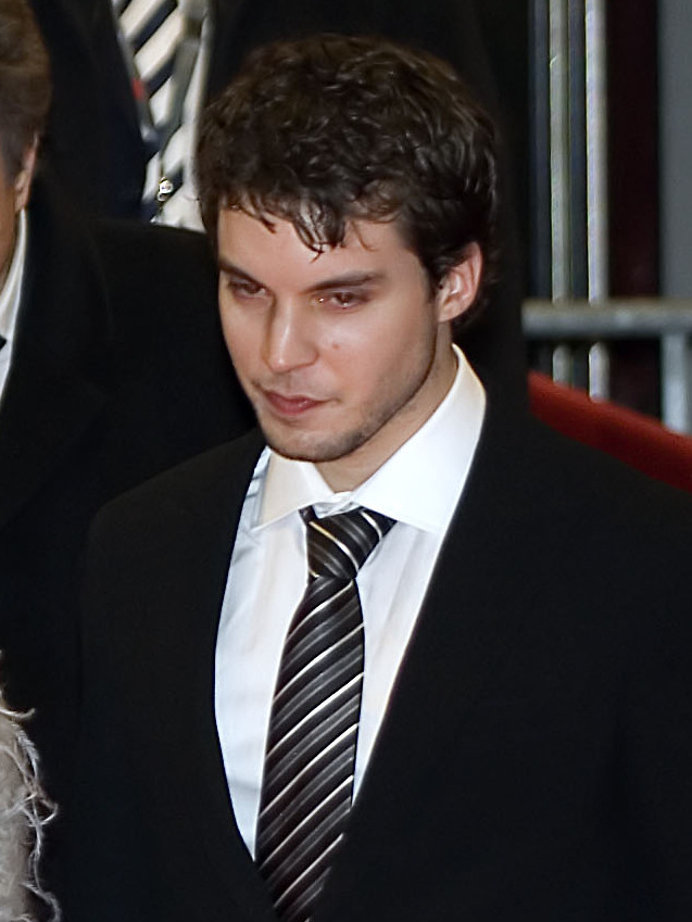 Lorenzo Balducci, arrival for the premiere of "Les Témoins" ("The Witnesses", Die Zeugen"), Berlinale palace, Potsdamer Platz, Berlin